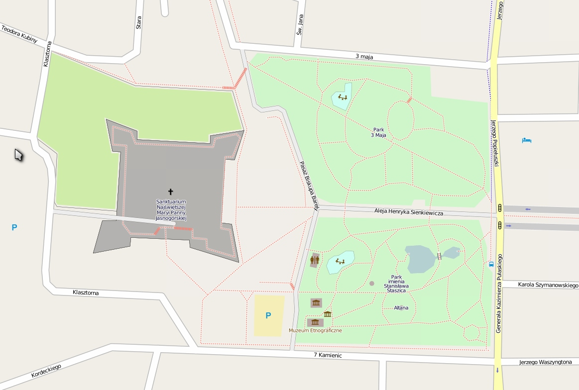 Map of Jasna Góra, Częstochowa